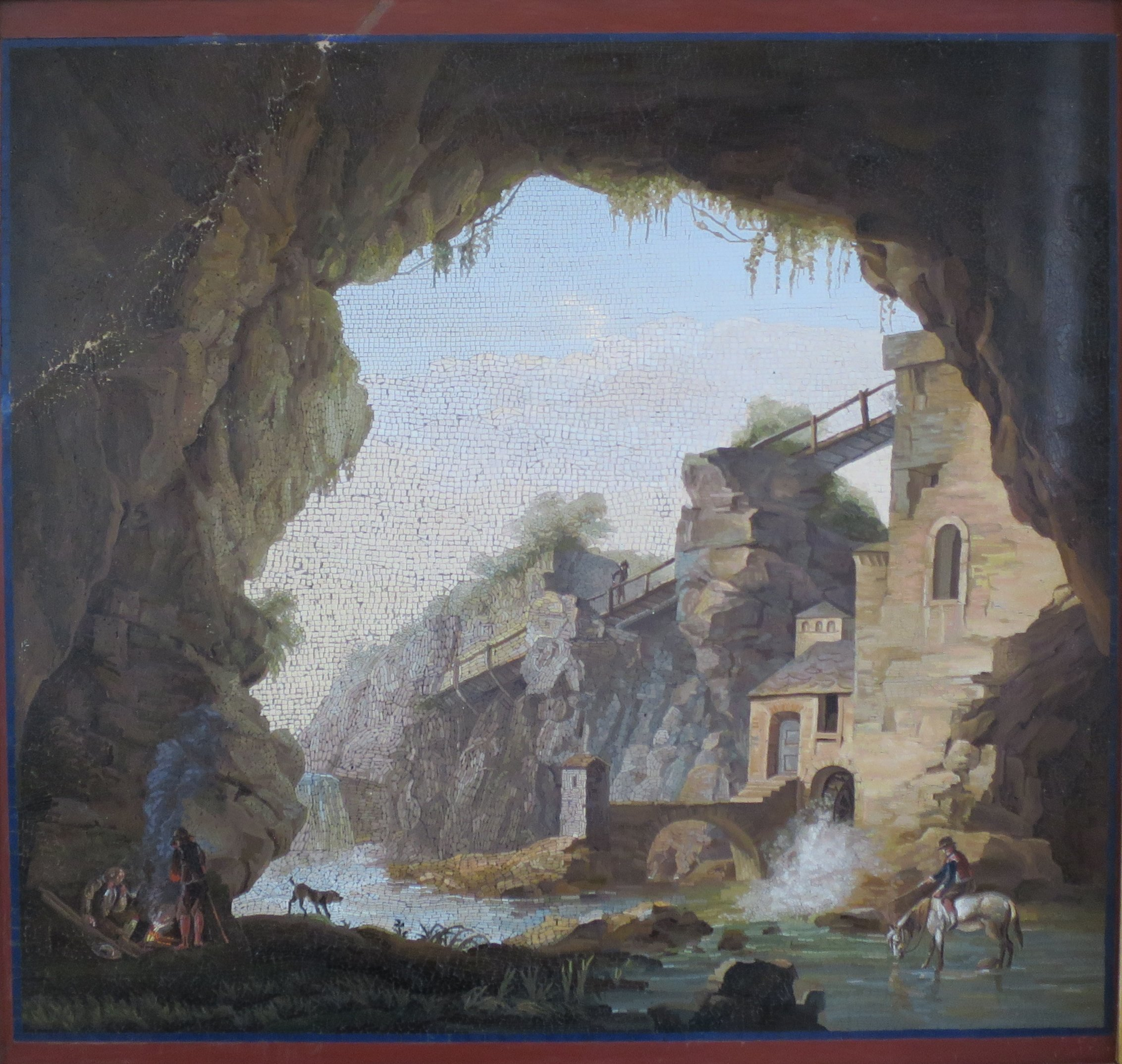 Grotto at Tivoli, anonymous micromosaic from Italy, 54.2 x 49.5 cm, 1817, The Hermitage